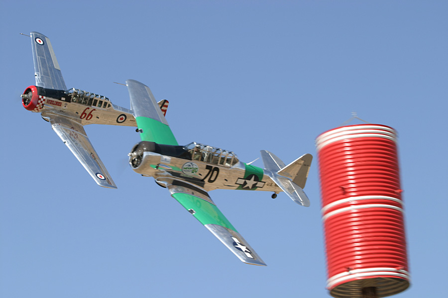 North American AT 6 racing a pylon at the Reno Air Races North American AT 6 umfliegen einen Pylon bei den Reno Air Races